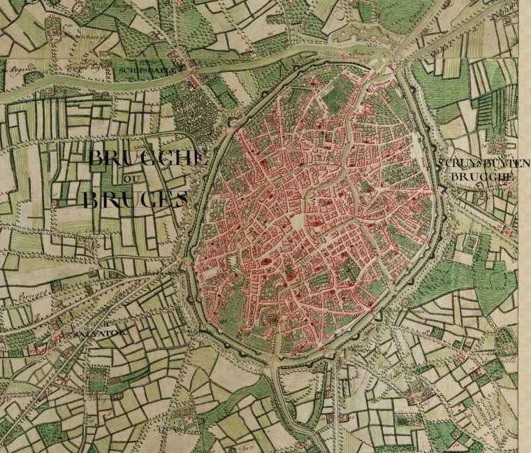 Bruges,_Belgium_;_ detail from Ferraris_Map